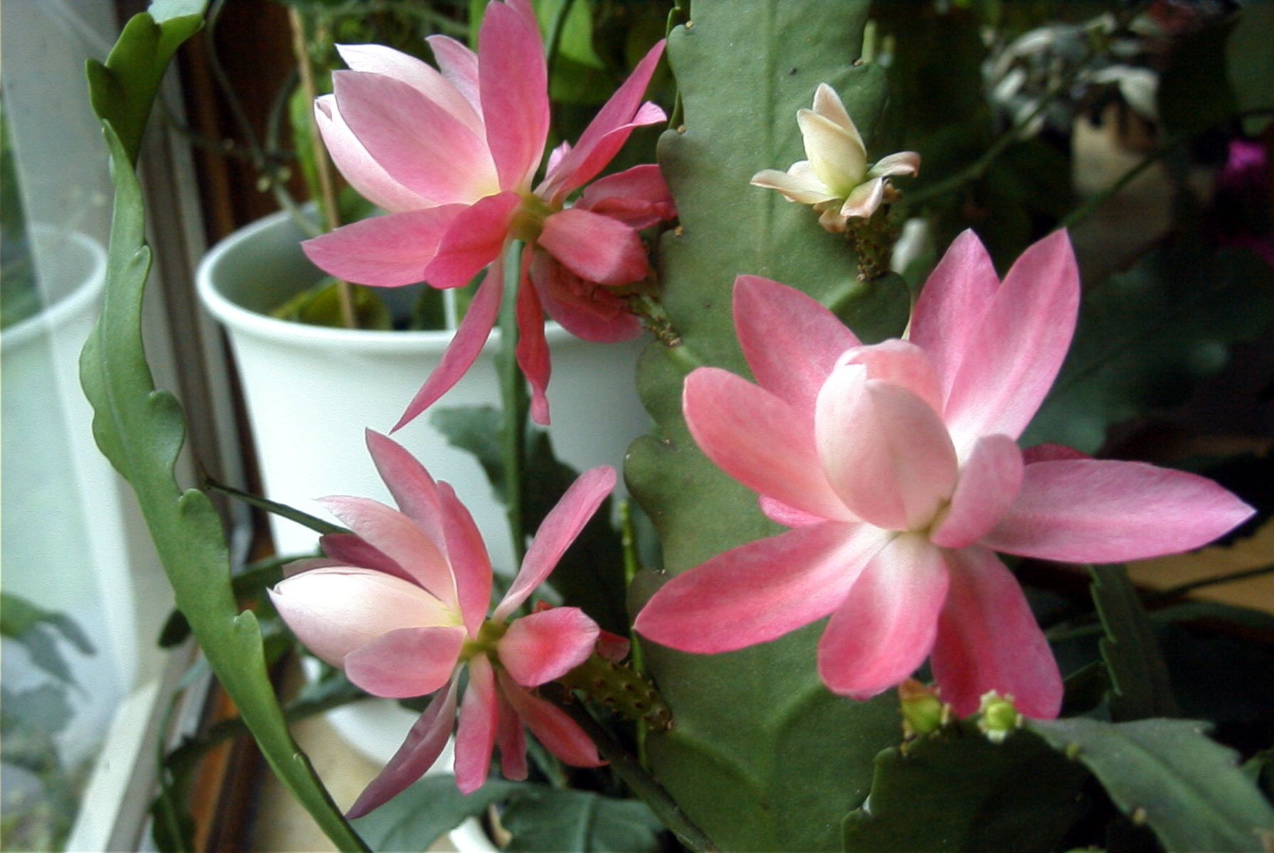 Epiphytic cactus Disocactus phyllanthoides.